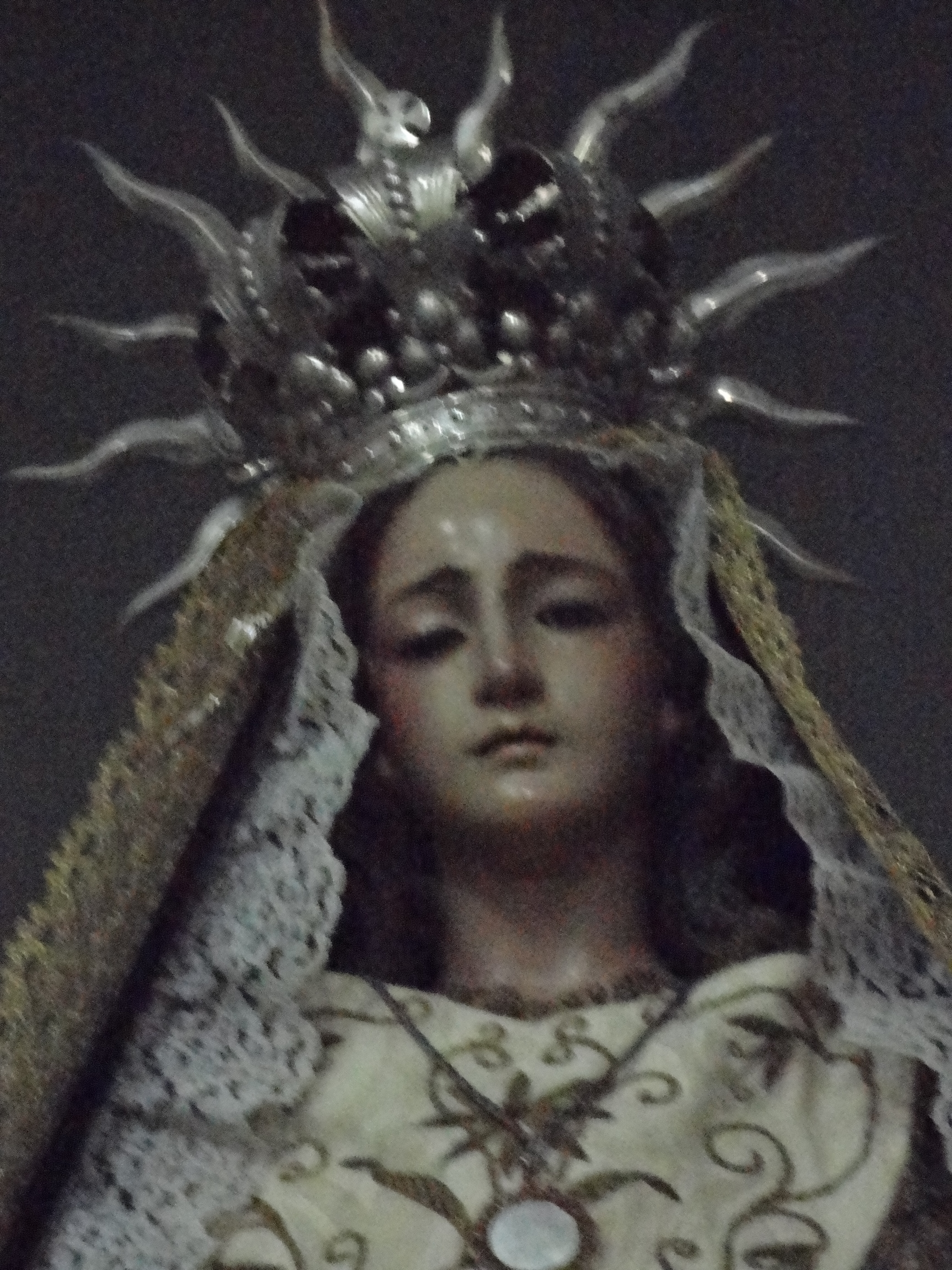 Virgen